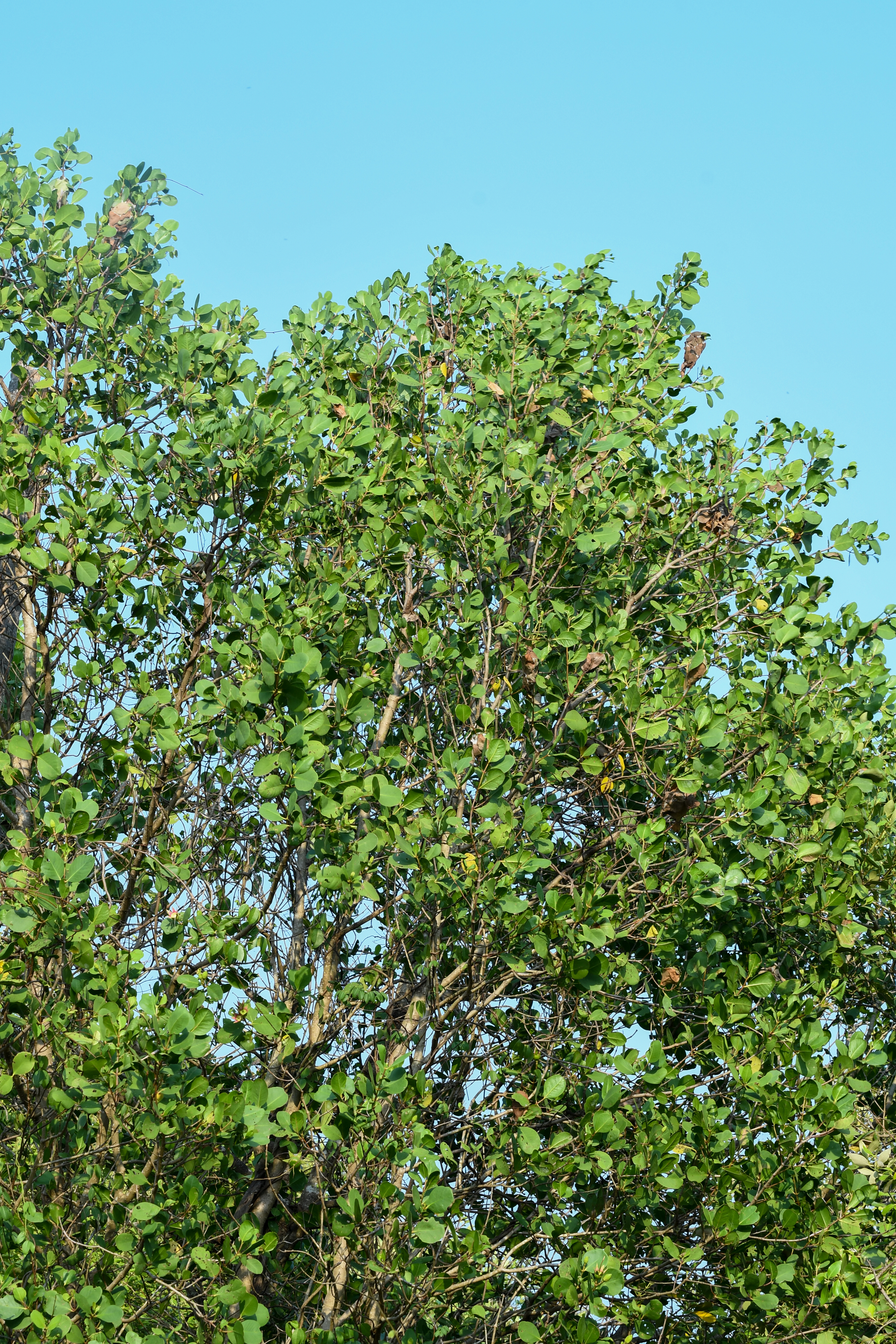 mangroves